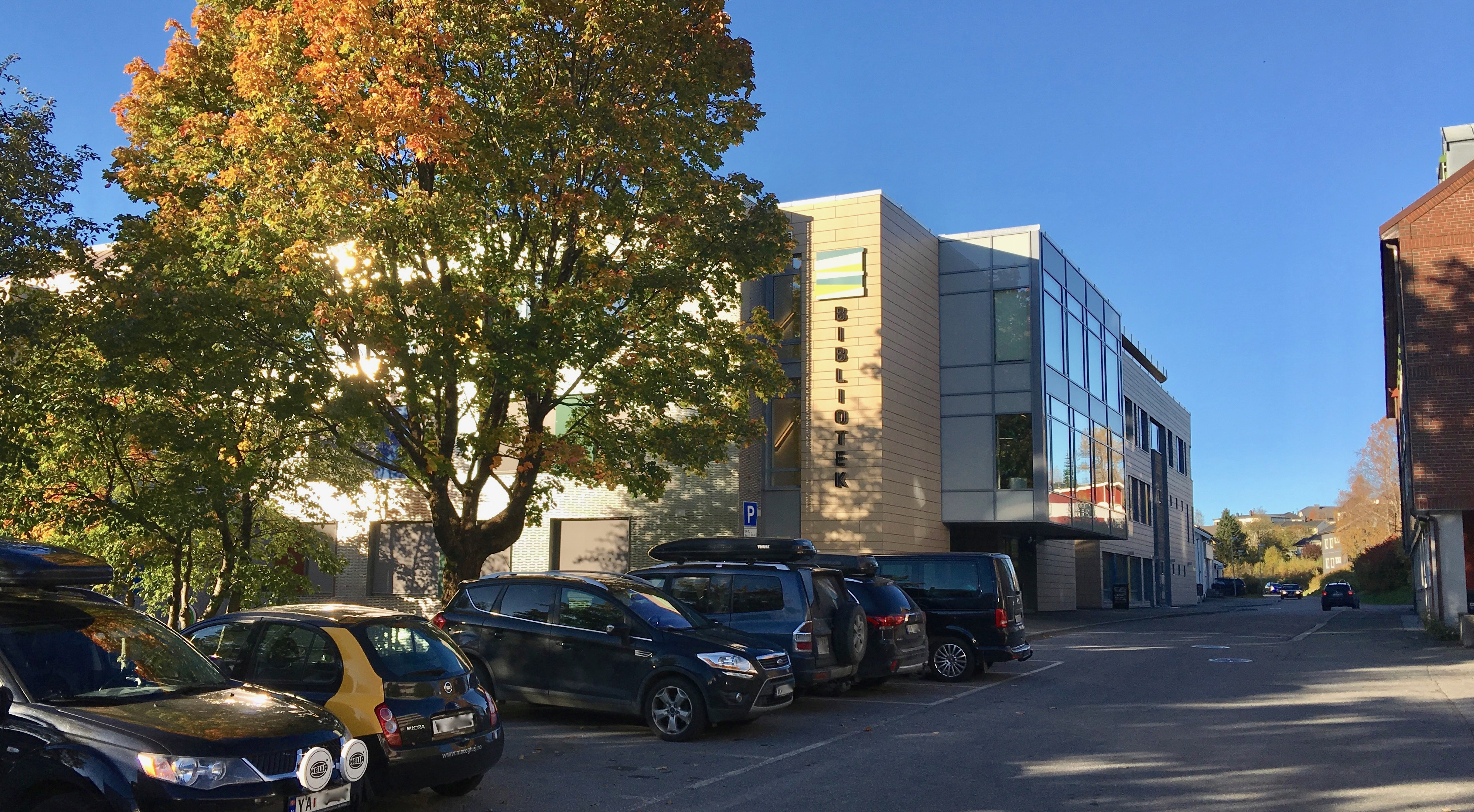 Rana Public Library (Rana bibliotek)/Nord University Library (biblioteket ved Nord universitet) building in Torggata 1A, Mo i Rana, Norway. Parked cars. Cropped panorama photo.